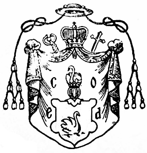 Coat of arms of Bishop Stephen Soter Ortynsky.